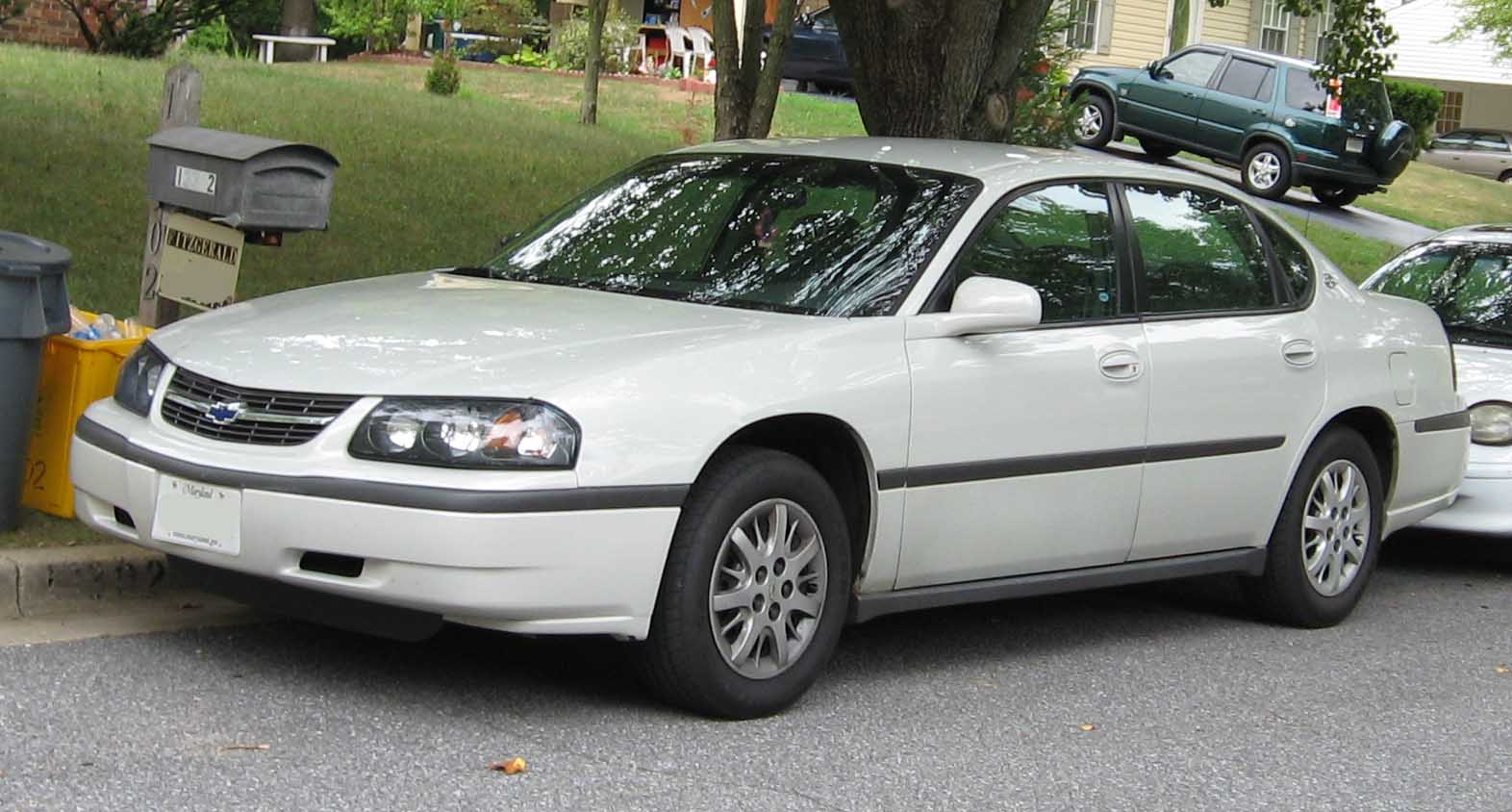 2000-2005 Chevrolet Impala photographed in USA.